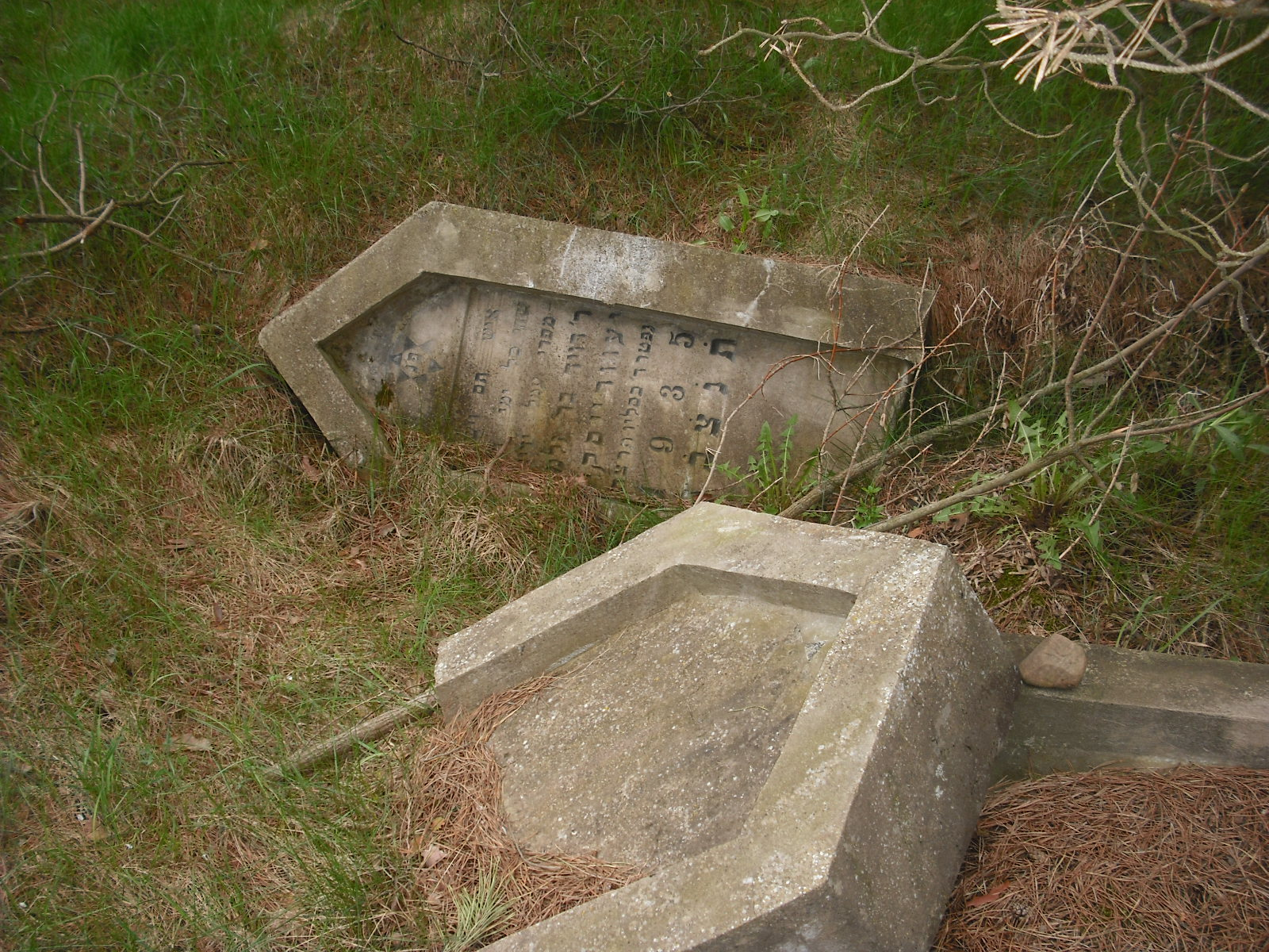 Jewish cemetery in town of Goniadz (1)